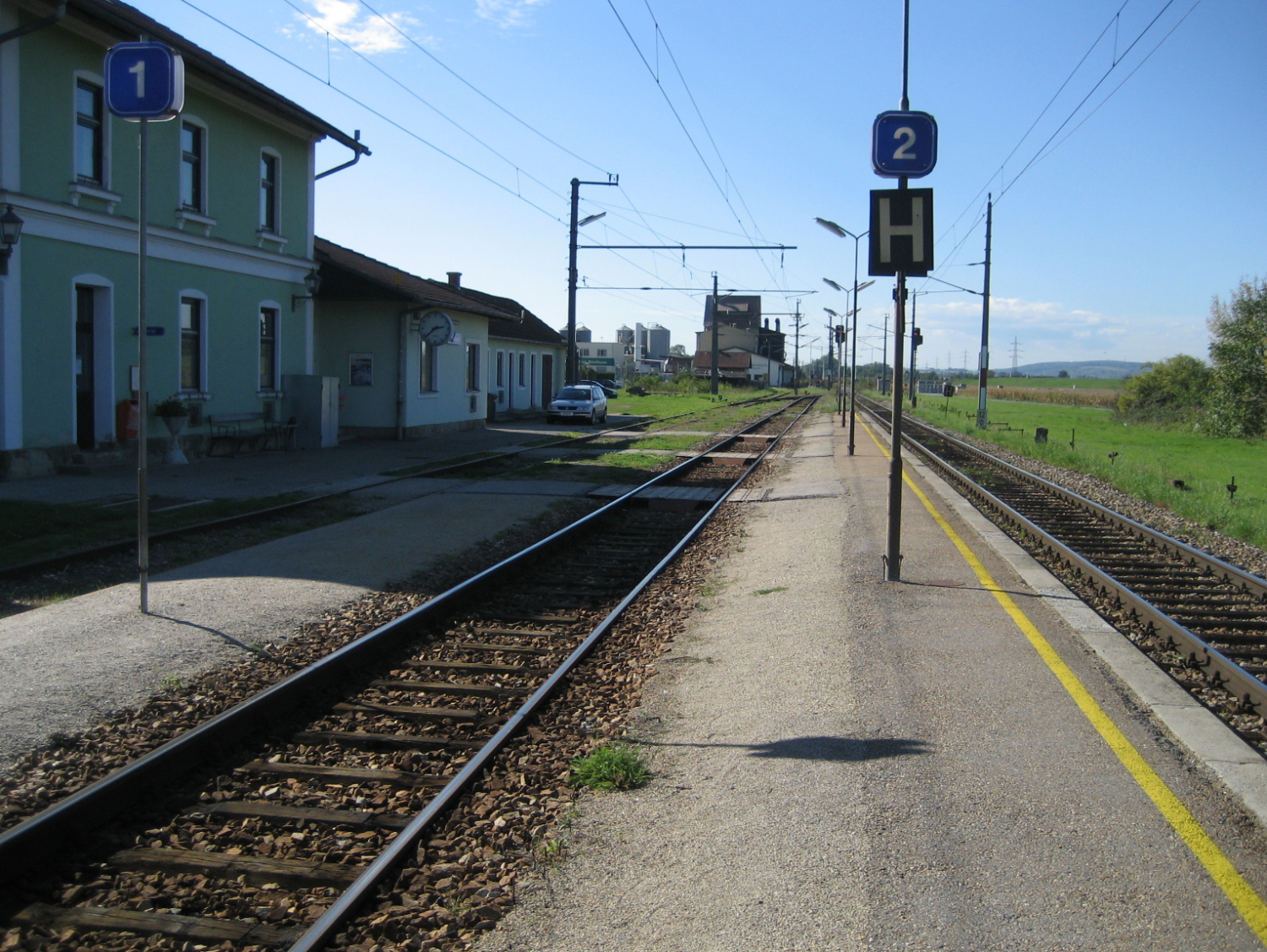 train station in Michelhausen, Lower Austria